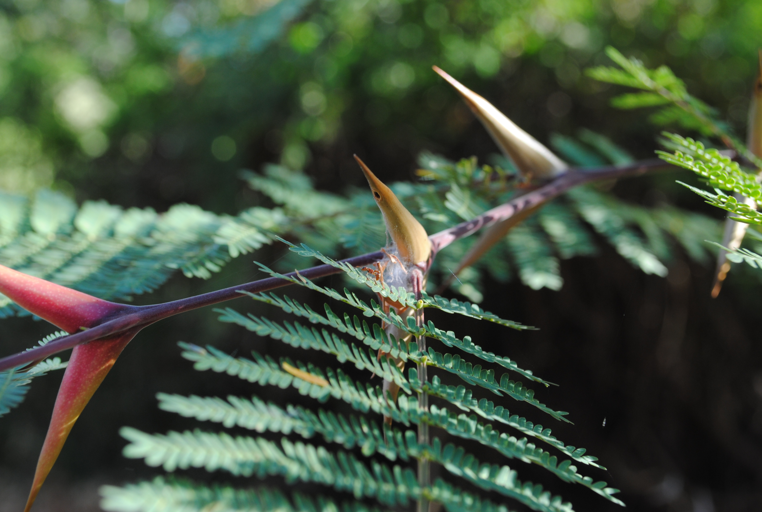 An ant living in a Collinssi Accacia, in Nicaragua.